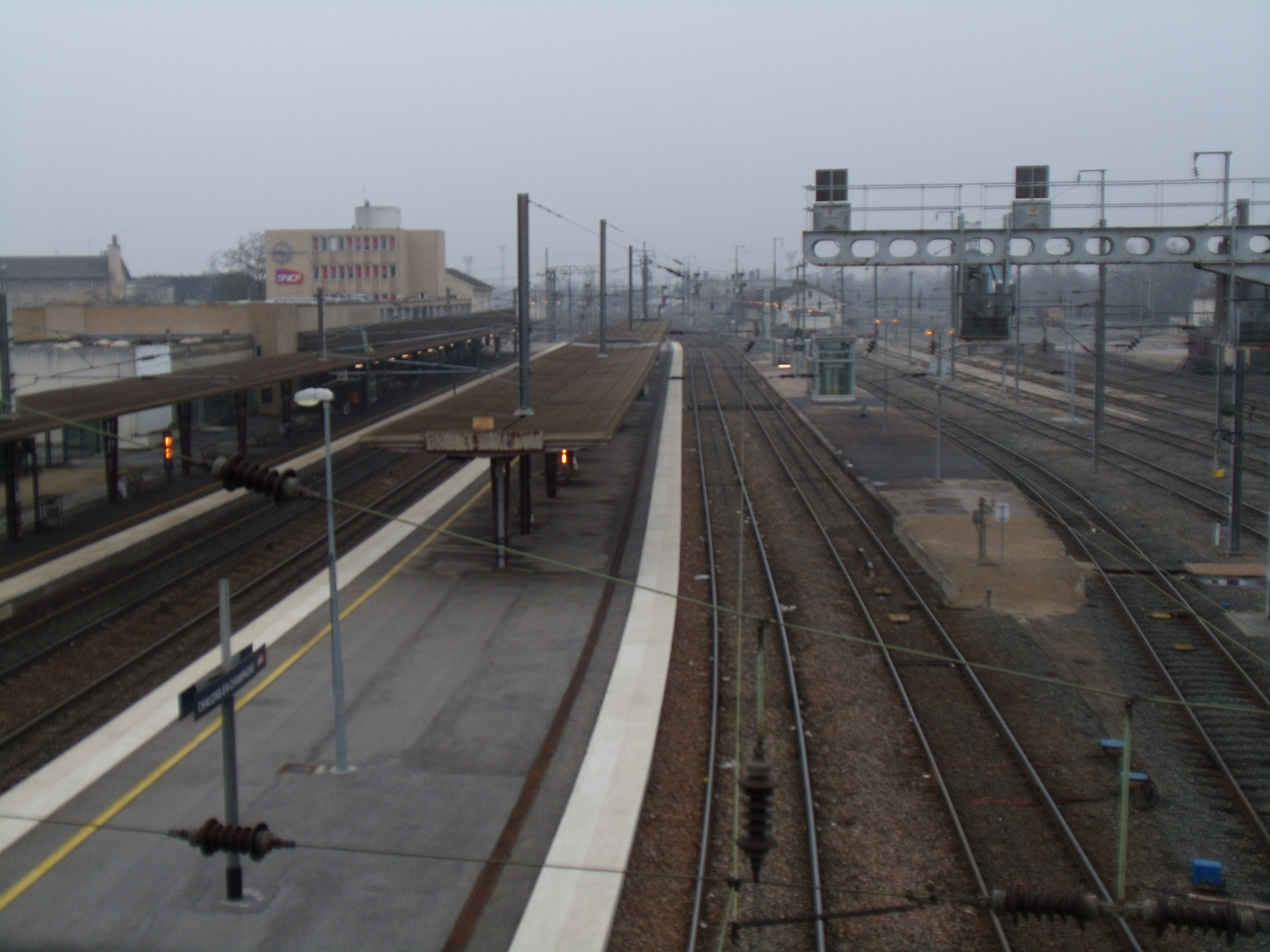 tracks in Châlons-en-Champagne station from Nancy toward Paris